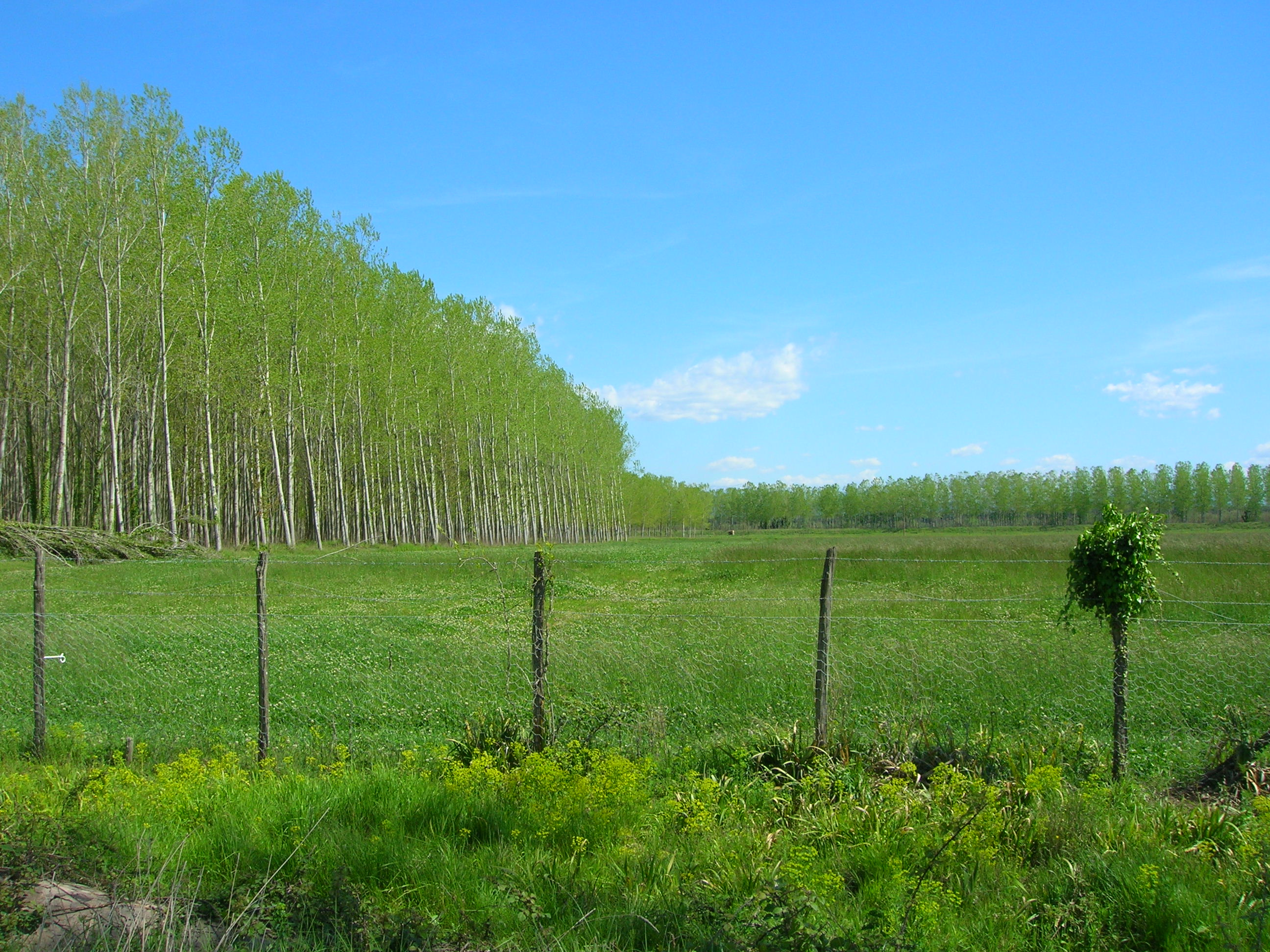 Pasture in San Rossore, Pisa, Tuscany, Italy